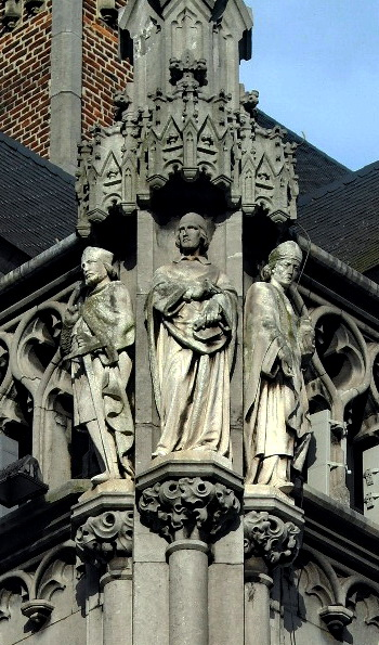 West façade of the provincial palace in Liège, Belgium Here the 19th-century statues of the Liège bishops Franco, Ratherius and Wazo.